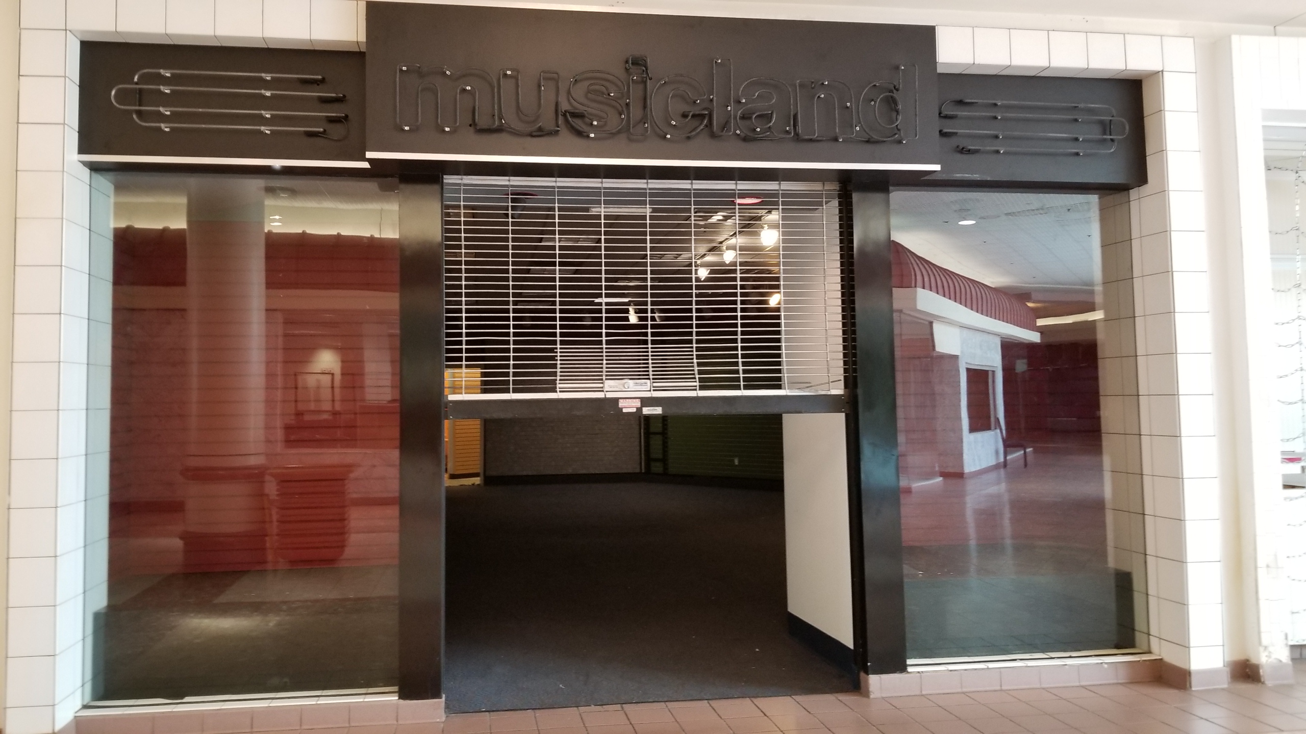 North DeKalb Mall, DeKalb County, Georgia